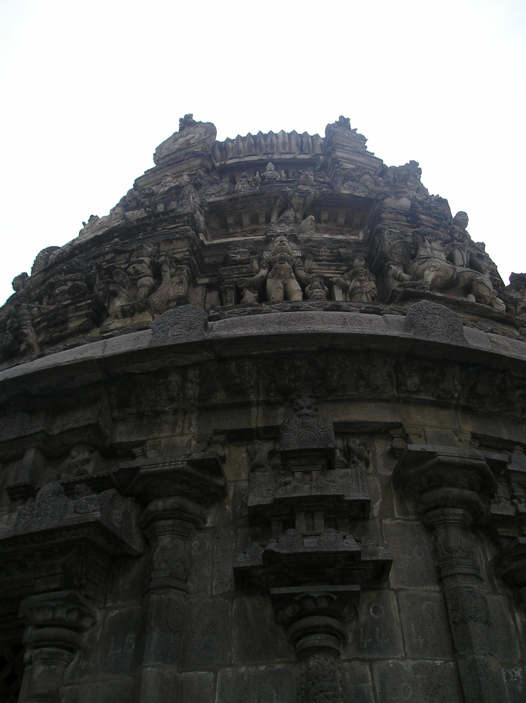 Iratheshwarar